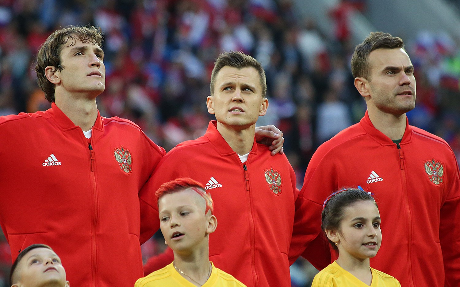 Igor Akinfeev, Mário Figueira Fernandes, Denis Cheryshev